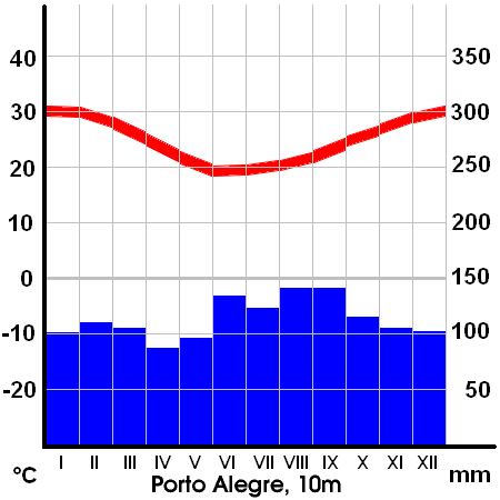 Rainfall and average max. temperature for Porto Alegre, Brazil. °Celsisus and millimeters. Software: Data